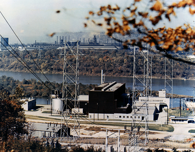 Photograph of the Shippingport Atomic Power Station in Shippingport, Pennsylvania, the first full-scale nuclear power generating station in the United States which began operating in 1957.